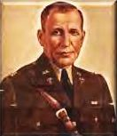 Rodriguez General Hospital was named in honor of Major Fernando E. Rodriguez, Dental Corps, US Army, an outstanding pioneer in oral bacteriology research. He was one of the first to discover the organism causing tooth decay. Major Rodriguez was a native Puerto Rican and served as Dental Officer, Station Hospital, Post of San Juan, at Fort Brooke.